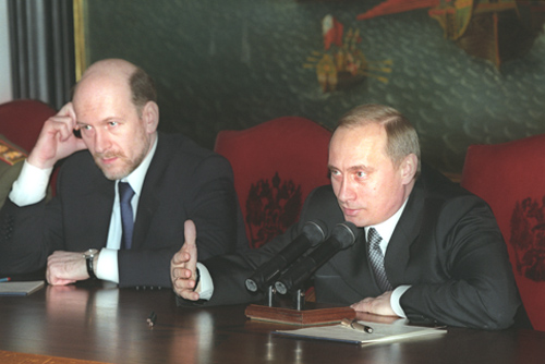 GRAND KREMLIN PALACE, MOSCOW. With the Head of the Presidential Administration Alexander Voloshin at a meeting with veterans, military leaders and heads of the All-Russian veteran organisations.